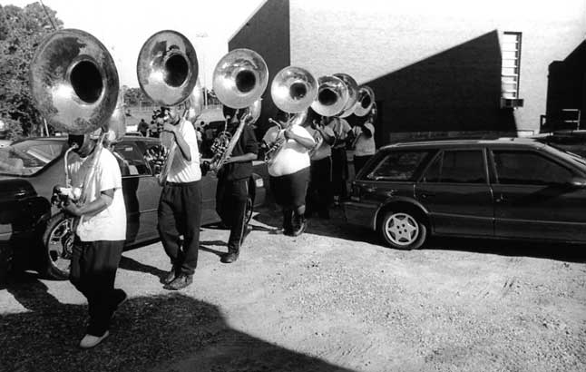 Jules Allen Photograph; Marching Bands, 2006